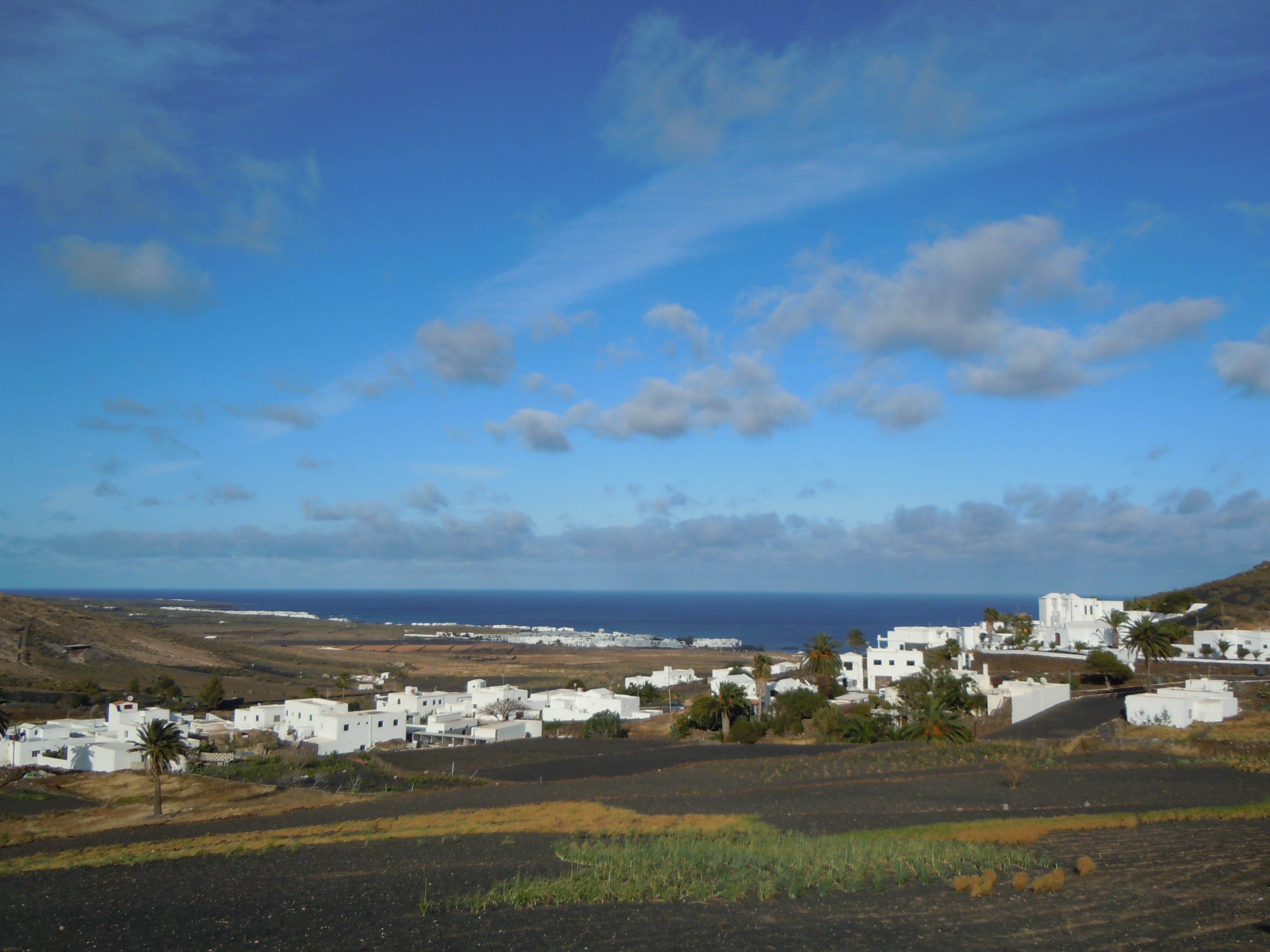 View over Tabayesco down to Arrieta, Haría, Lanzarote, Canary Islands